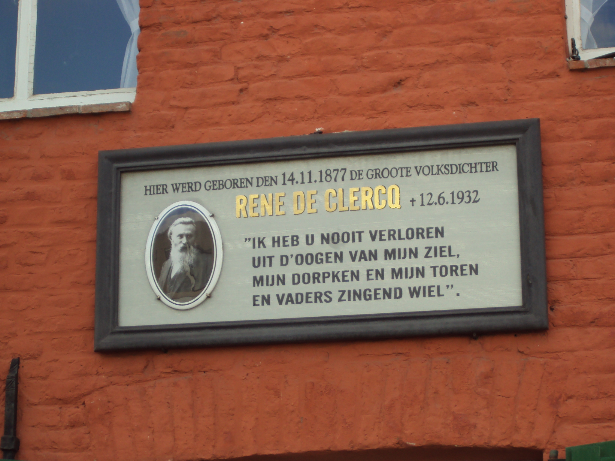 Commemorative plaque on the house where René De Clercq was born